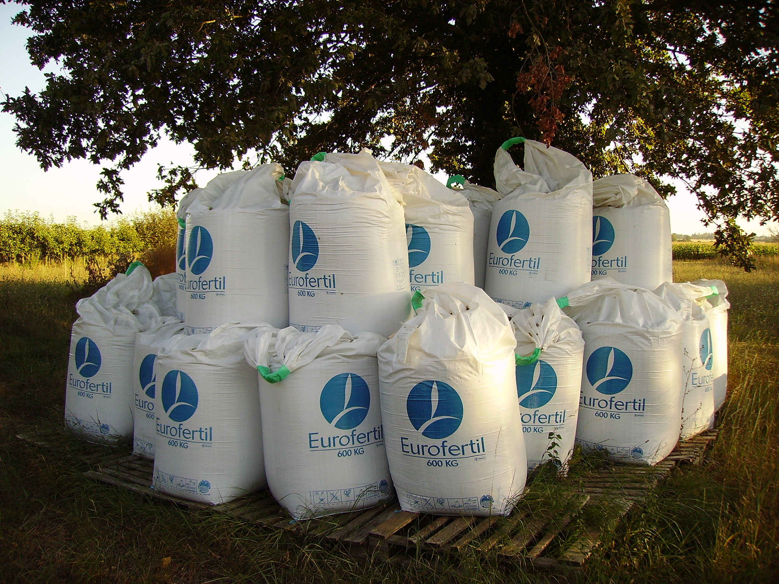 Flexible intermediate bulk containers (FIBC, big bags). Material: 600 kg Lithactyl N Pro fertilizer by TIMAC Agro, Roullier group. Burgundy, France.